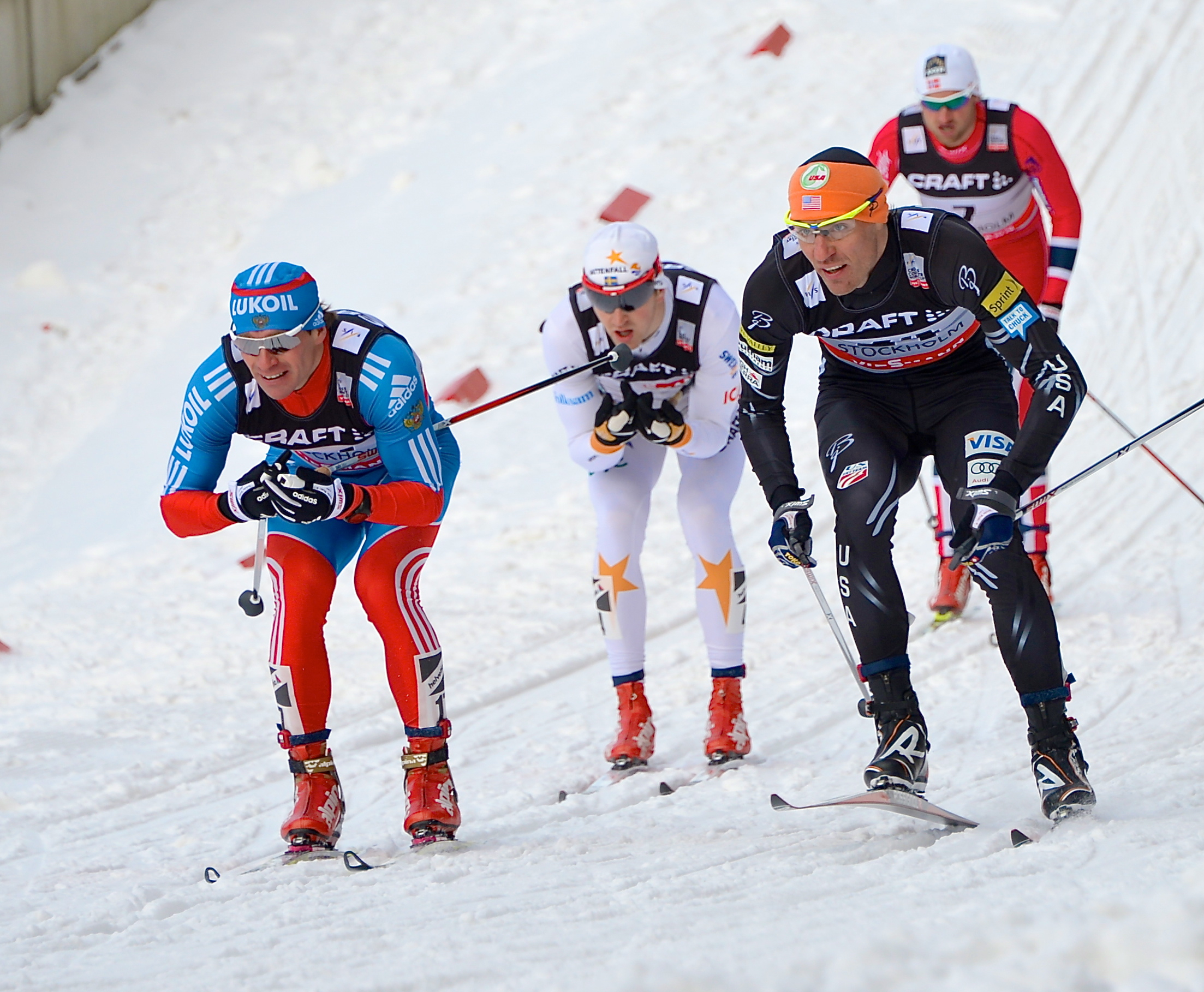 Maxim Vylegzhanin (17), Teodor Peterson (4), Torin Koos (24) at Royal Palace Sprint in Stockholm March 20, 2013